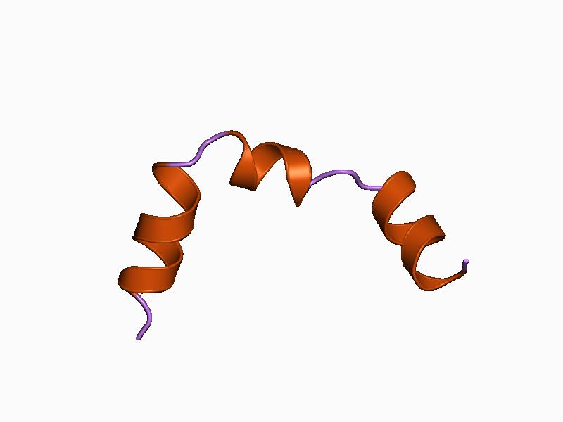 Cartoon representation of the molecular structure of protein registered with 1bl1 code.